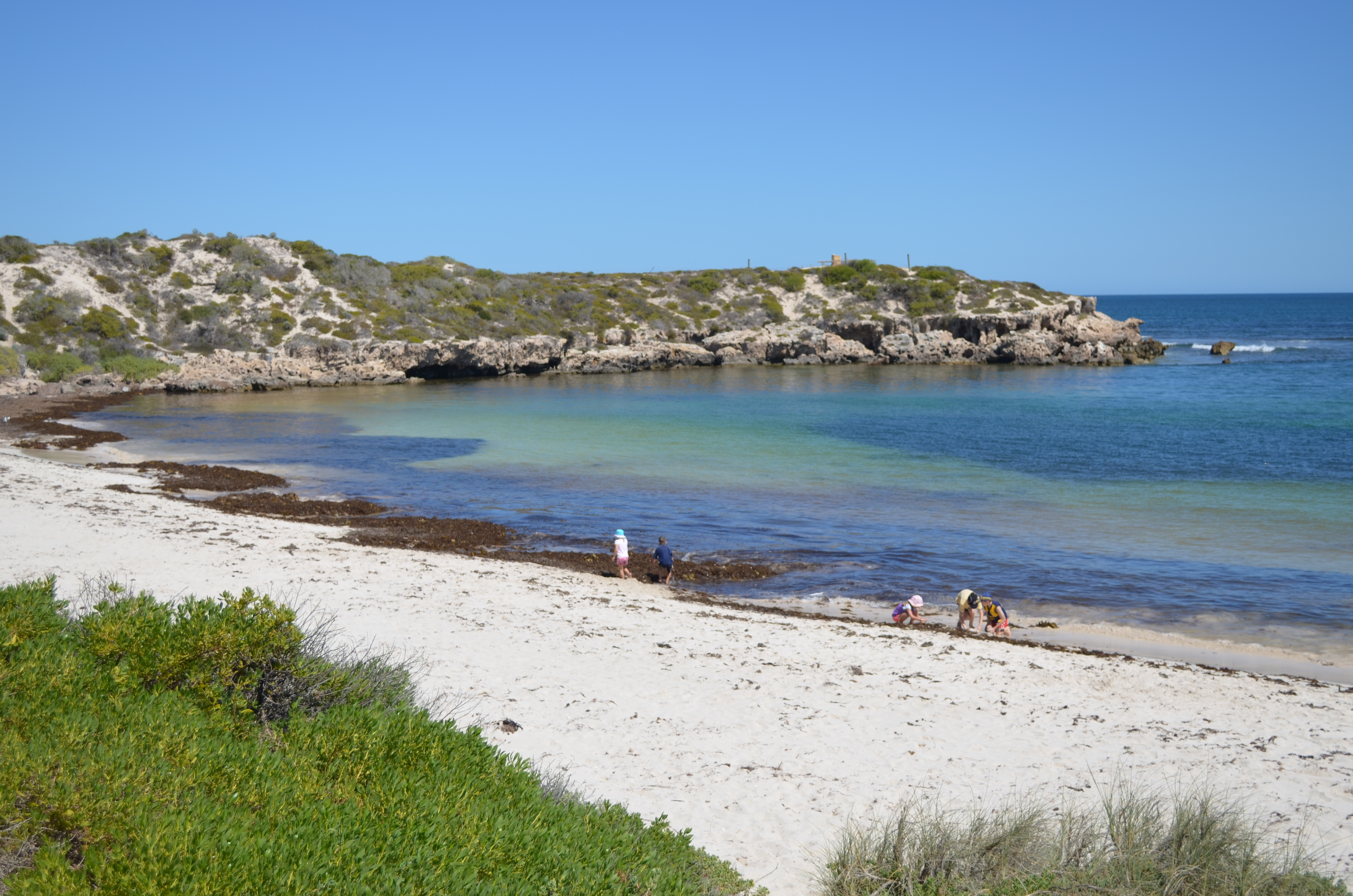 View of Dynamite Bay, Green Head, Western Australia.